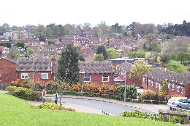 Birmingham but not Birmingham. A modern estate in Castle Bromwich, a suburb of the city that is actually part of Solihull Borough. (Looking WSW from the SE corner of the grid square.)